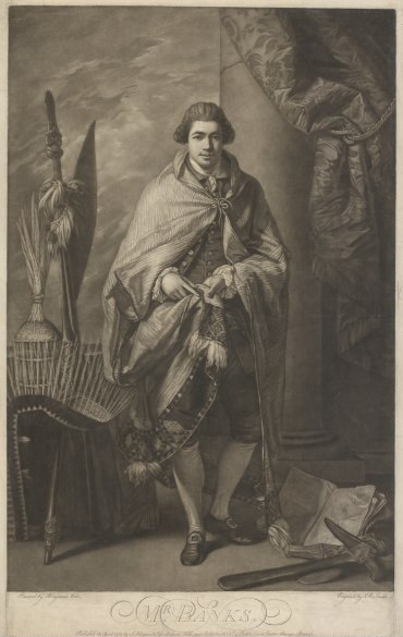 Portrait of Sir Joseph Banks entitled Mr. Banks.